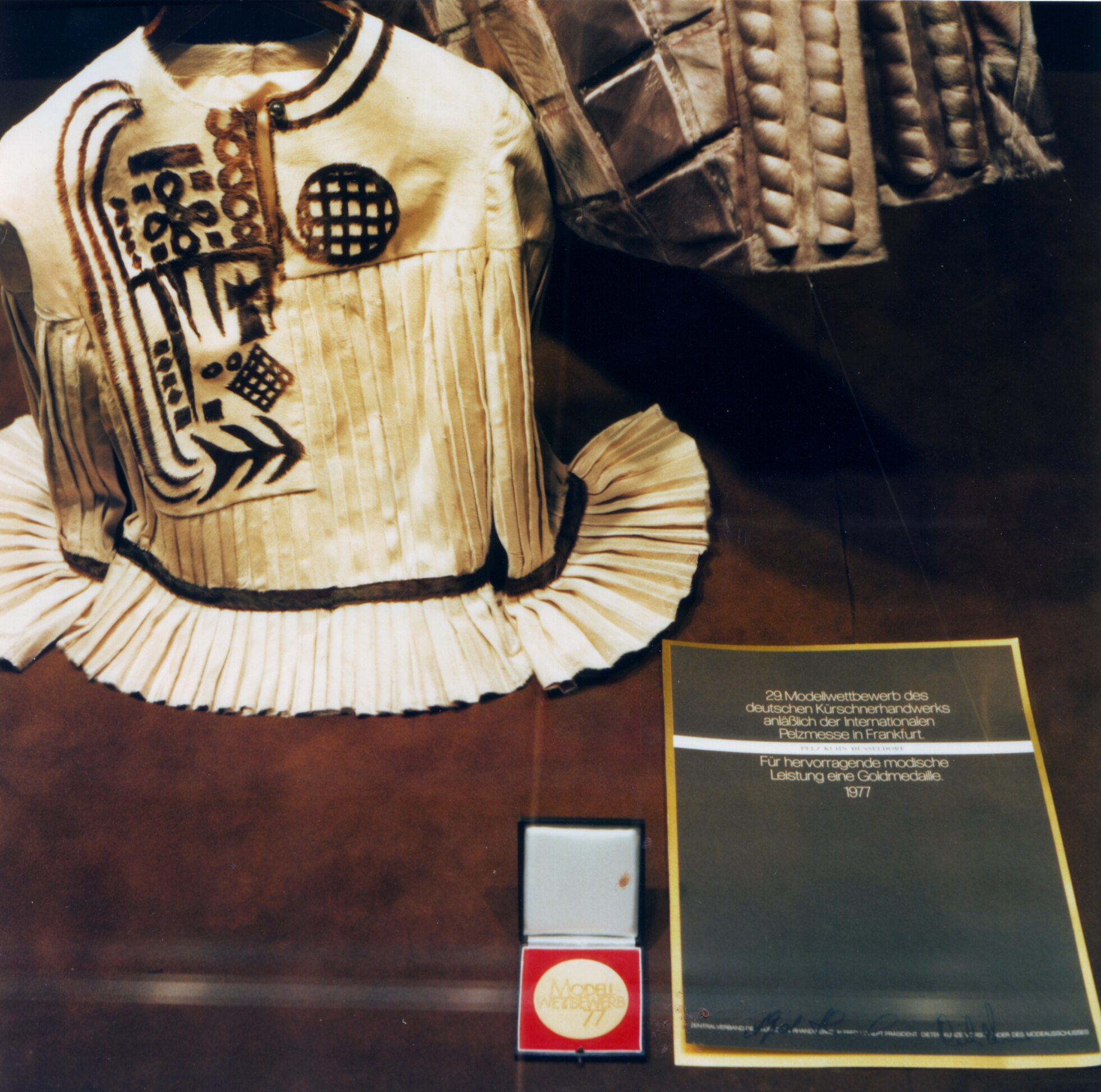 Iran broadtail fur jacket